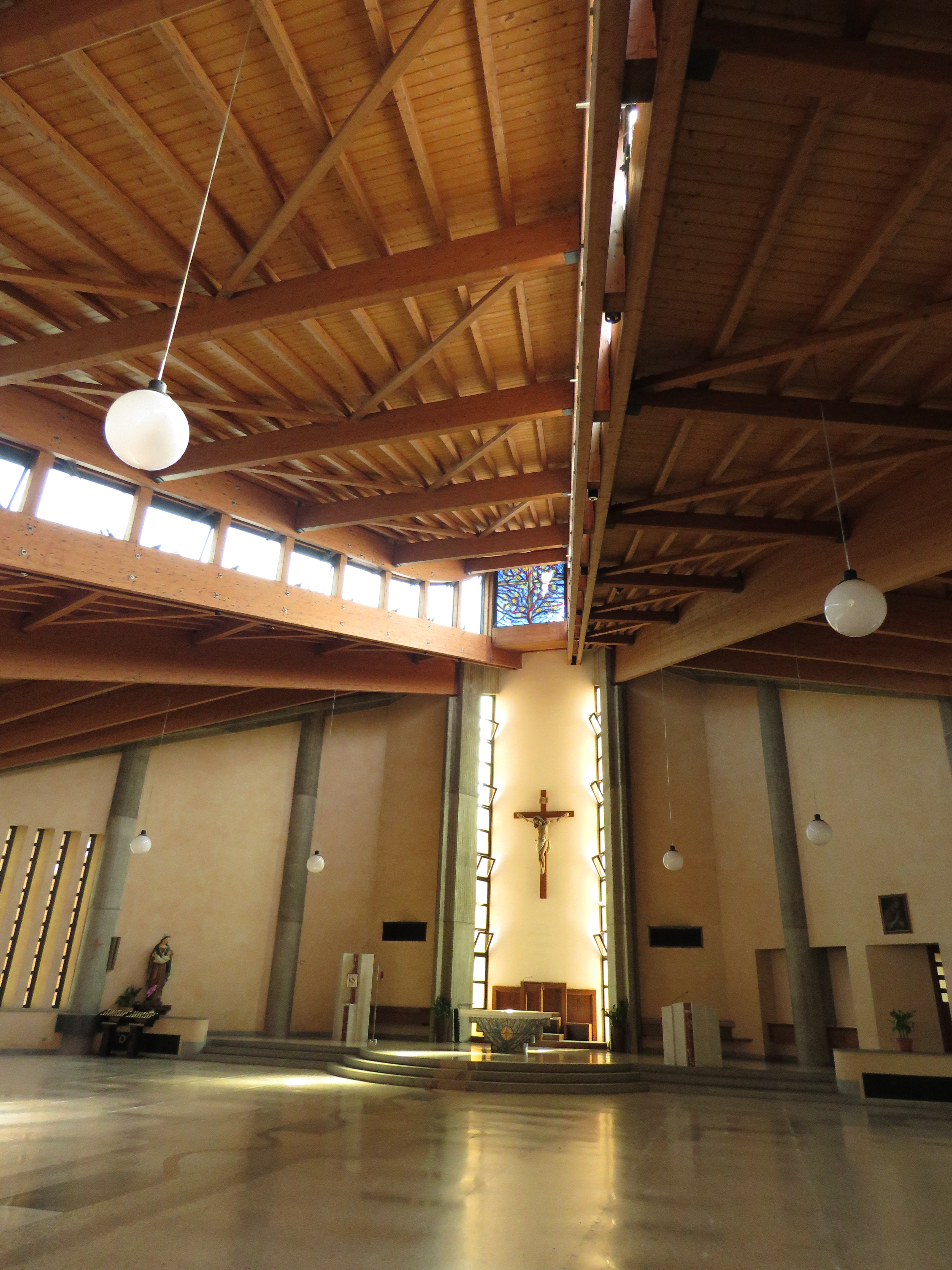 Church of Saint Charles (Brugherio), internal view with wood ceiling detail.